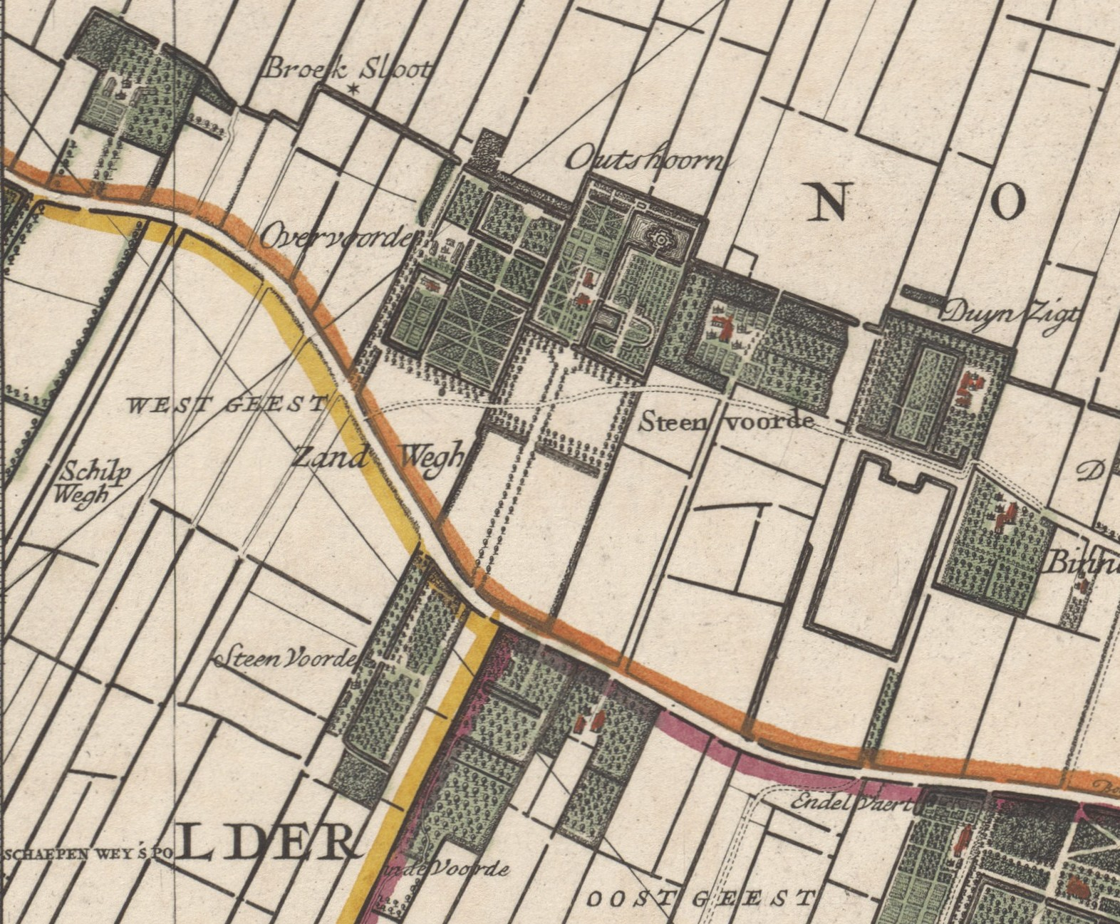 Country estate Steenvoorde in Rijswijk Netherlands 1712